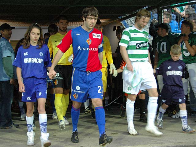 Steven Pressley of Celtic FC and Ivan Ergić of FC Basel.